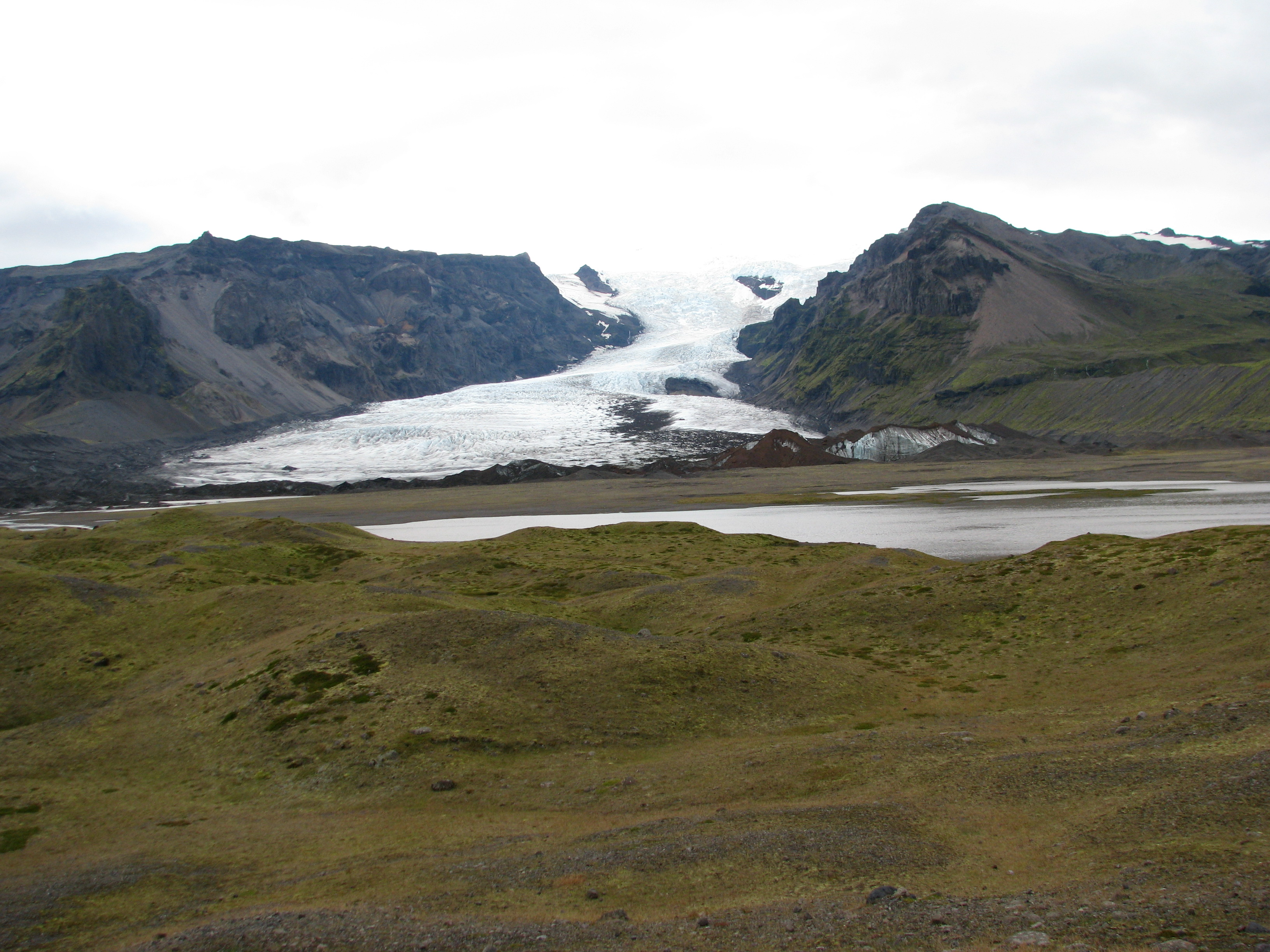 Kvíárjökull, glacier, Iceland